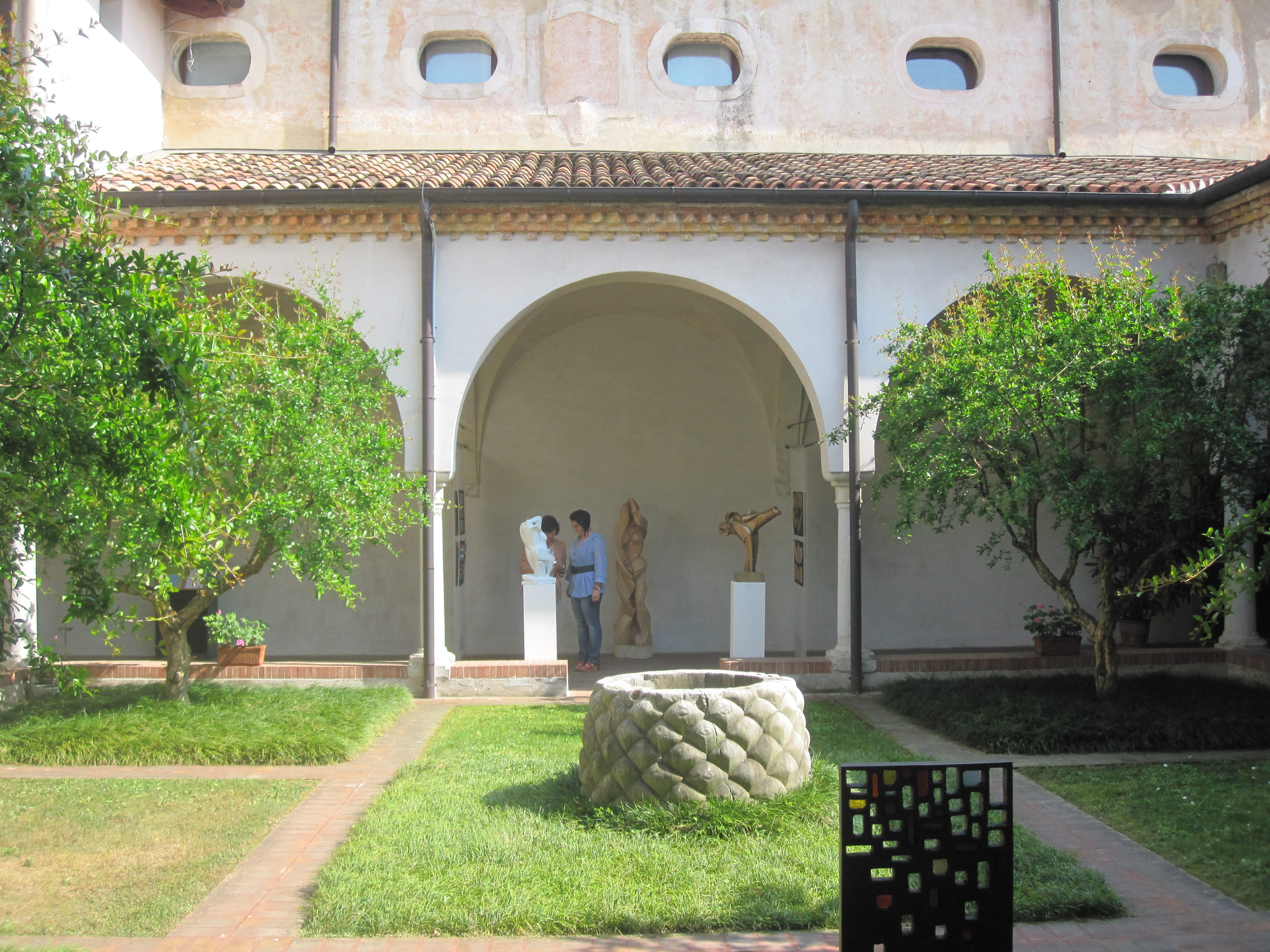 The "chiostro piccolo" (small cloister) of the Convento di Santa Maria in Treviso (IT)